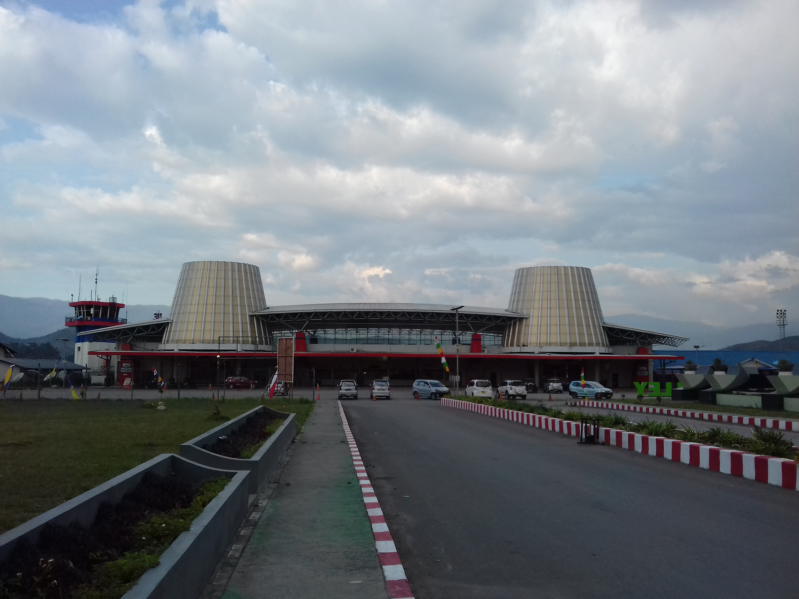 Wamena Airport , Papua, Indonesia 2019.